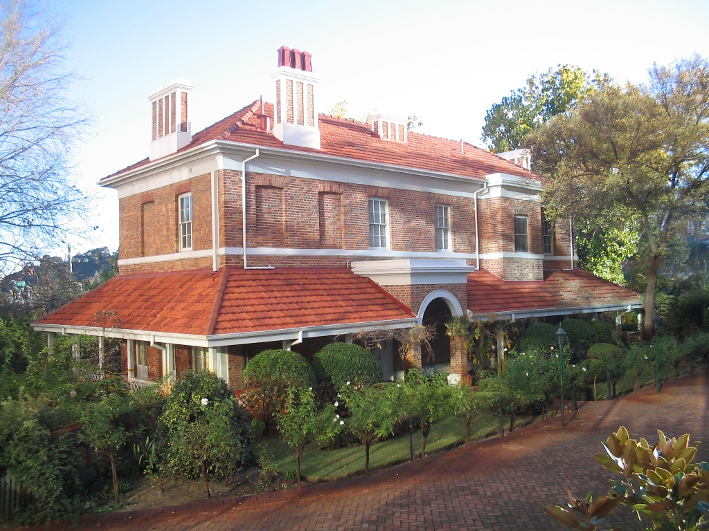 Bishop Hales' House, Perth